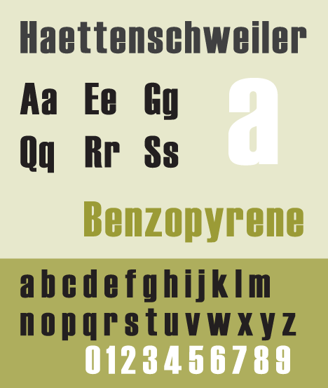 Specimen of the typeface Haettenschweiler. Jim Hood